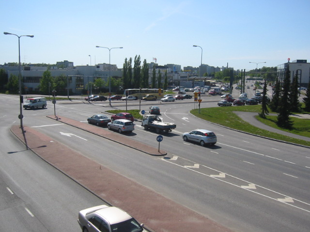 The junction of the national road 40 (E18) and Raisiontie road at the city centre of Raisio, Finland.